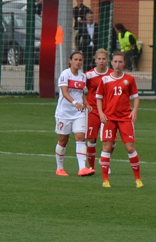 Arzu Karabulut for Turkey women's national football team in the home match against Belarus